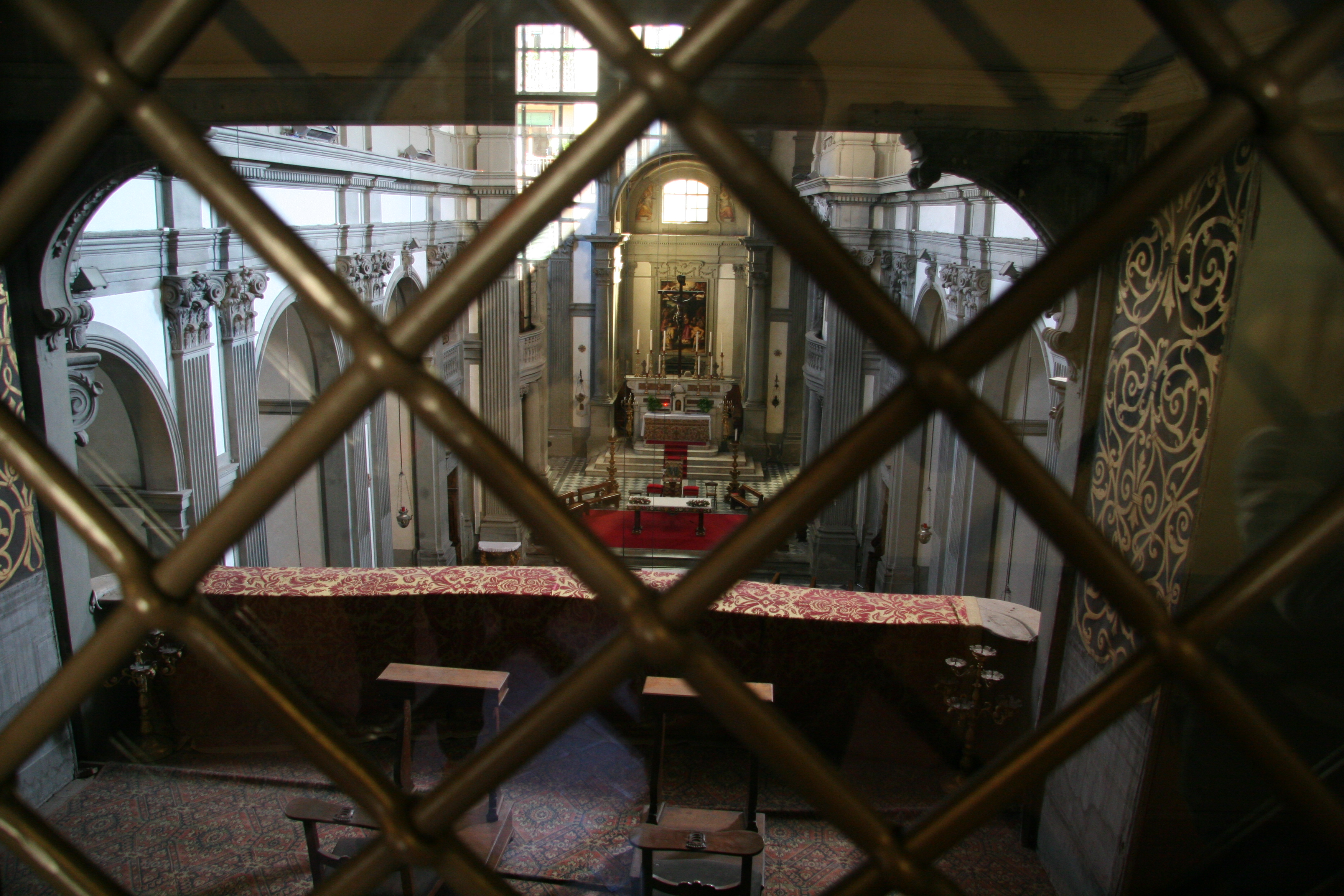 Looking Into Santa Felicita From the Vasari Corridor